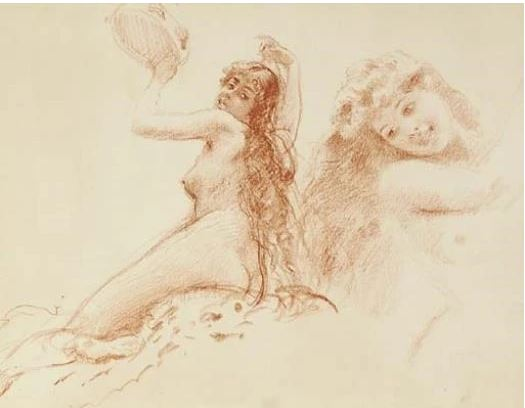 Study of a girl with a tambourine; also A study of a reclining nude; and A study of a dancing nude red chalk on paper Works on Paper 10¼ x 13 in. (26 x 33 cm.); 6¾ x 11½ in. (17.1 x 29.2 cm.); 9¼ x 9¾ in. (23.5 x 24.8 cm.) Signed Sale Date Sep. 08, 2004 Konstantin Yegorovich Makovsky (Russian, 1839-1915) Study of a girl with a tambourine; also A study of a reclining nude; and A study of a dancing nude the first signed 'C. Makowsky' (below the central figure); the other two signed 'C. Makowsky' (one lower left and one lower right) red chalk on paper the first 10¼ x 13 in. (26 x 33 cm.); the second 6¾ x 11½ in. (17.1 x 29.2 cm.); the third 9¼ x 9¾ in. (23.5 x 24.8 cm.) (3)